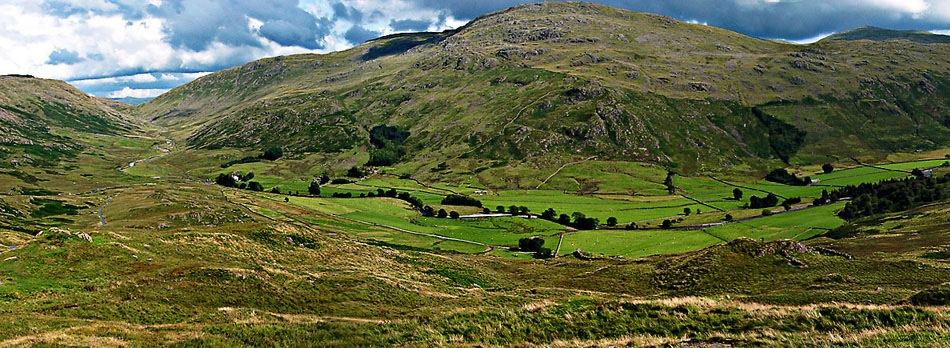 Wrynose Pass in the Lake Distric. Photographer: Srsteel. uploaded by Srsteel available online at